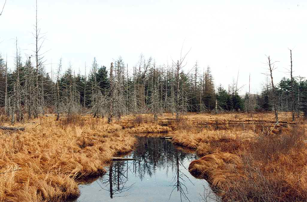 The Plains, Five Ponds Wilderness, New York